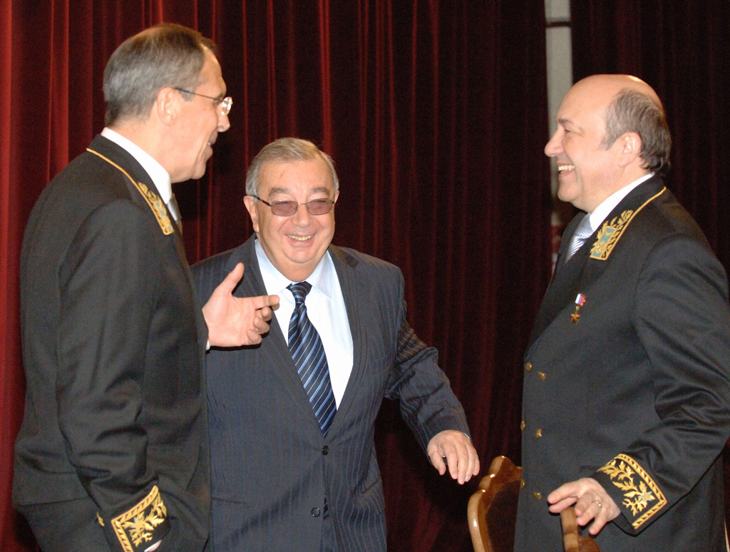 “Diplomatic workers day”. From left to right: Minister of Foreign Affairs Sergei Lavrov, former Minister of Foreign Affairs and Head of Chamber ofTrade and Commerce Yevgeny Primakov and former Minister of Foreign Affairs Igor Ivanov at a meeting dedicated to diplomatic workers day, the Ministry of Foreign Affairs.